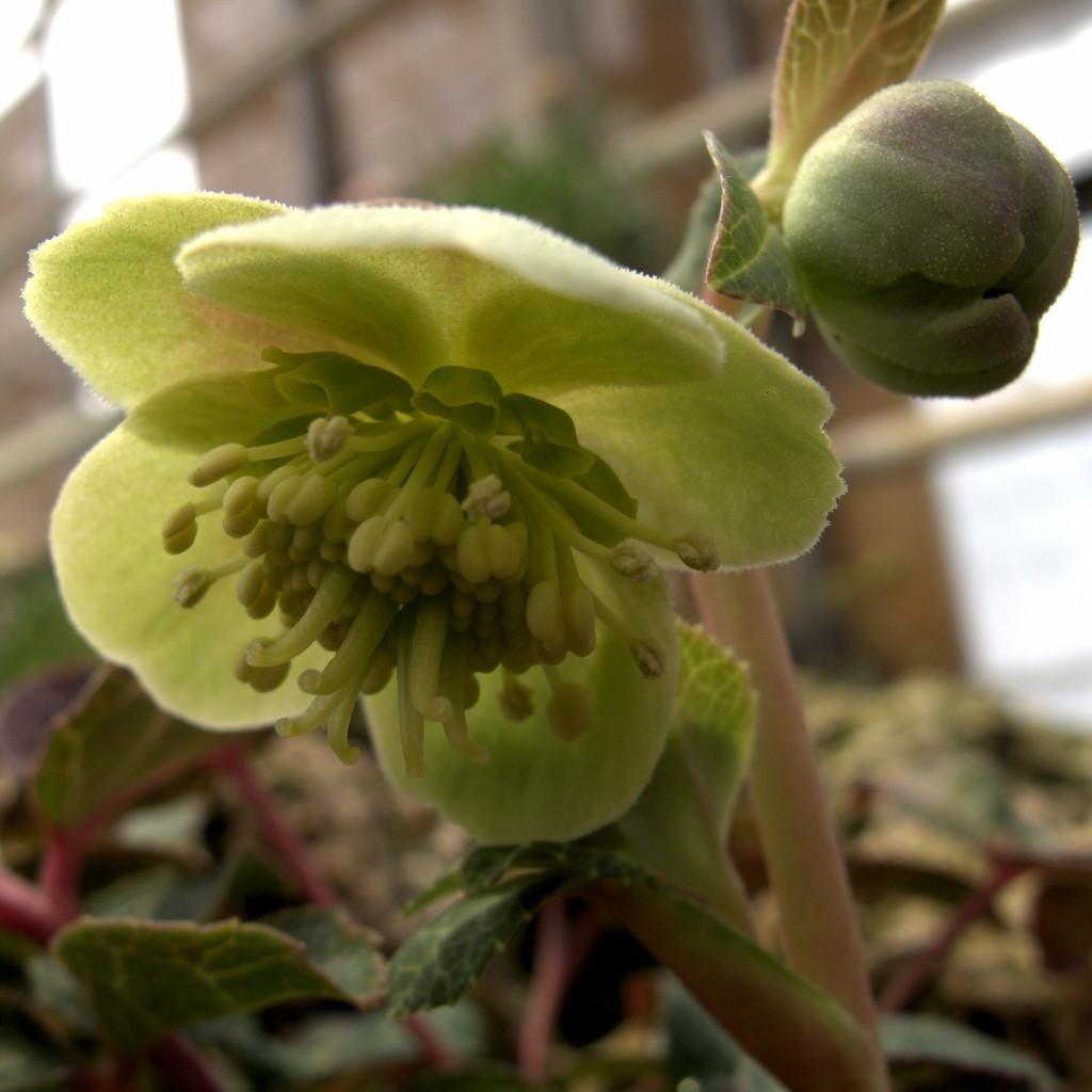 Helleborus lividus. Identified by sign.